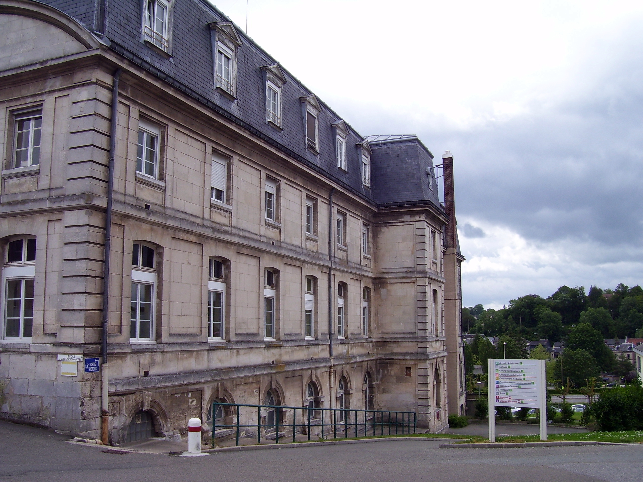 The hospital in Bernay (Eure, France), nurse's training school. On the side of the house is a date: 1875.